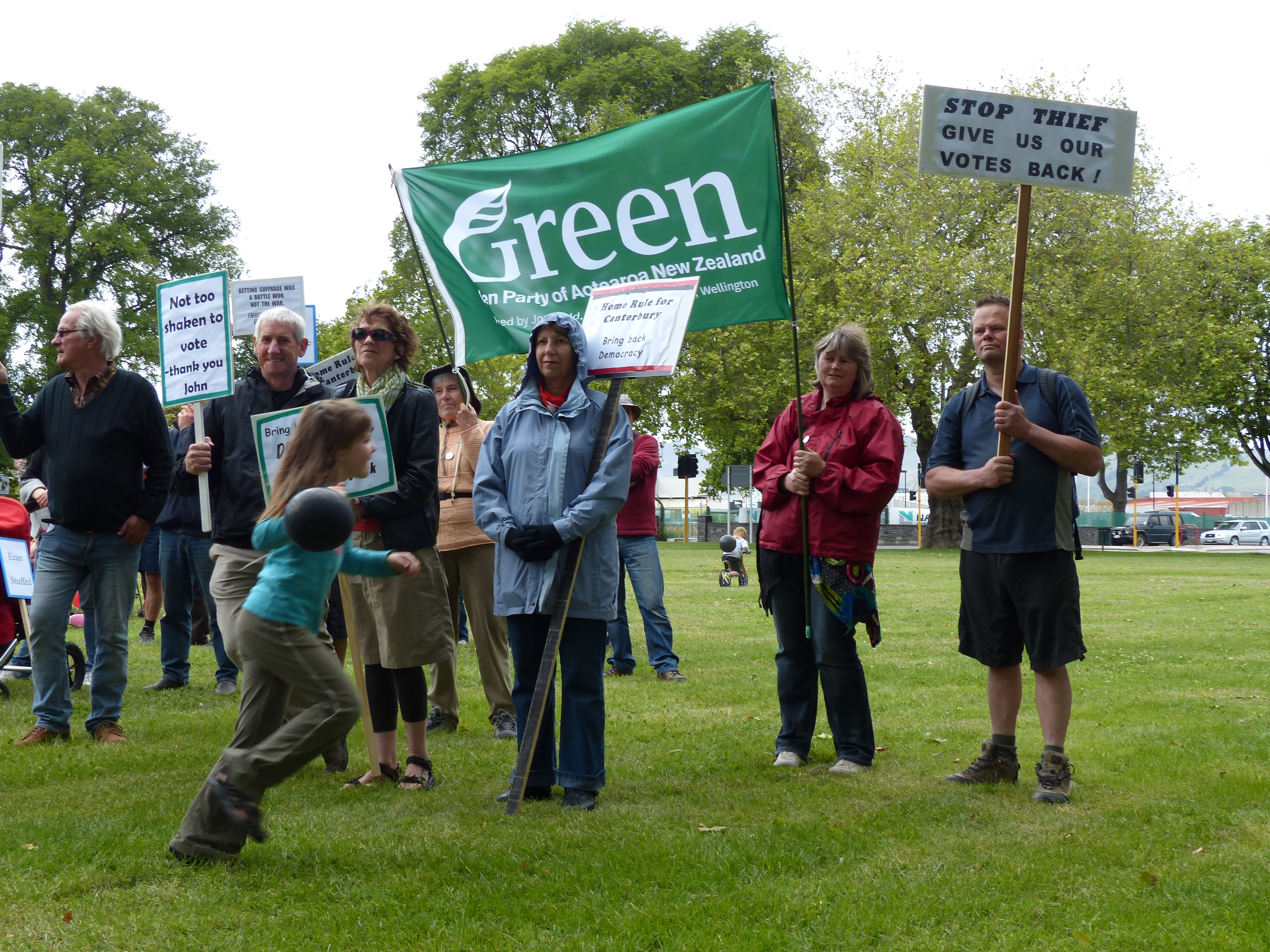 Stop Thief give us our votes back The people of Christchurch and wider Canterbury do not take kindly to the suspension of their democratic rights. The local body elections in October 2013 will show the government they will not get away with the hijacking of our city rebuild plans and their interference in the management of our water.